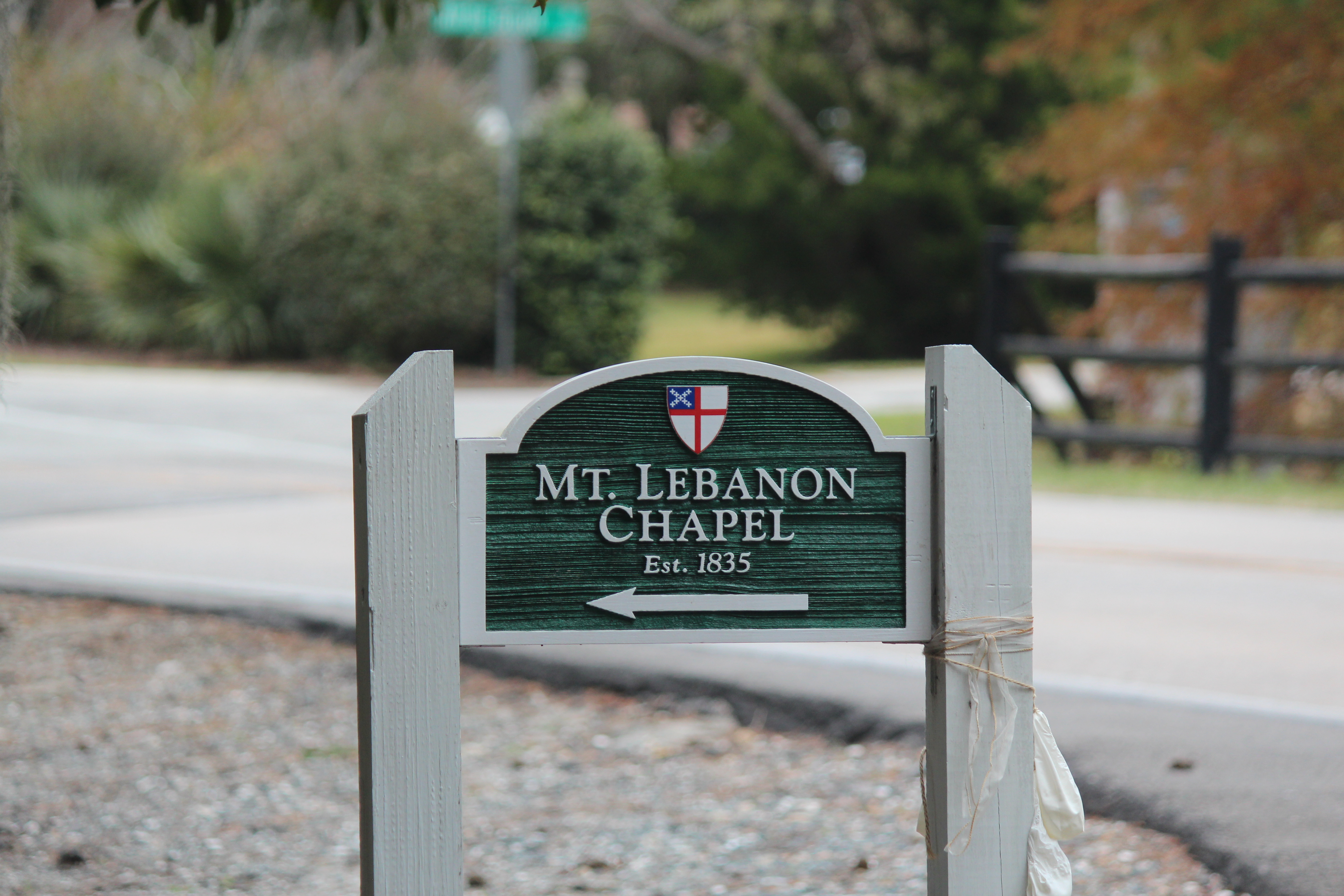 Mount Lebanon Chapel and Cemetery, also known as Lebanon Chapel, is a historic Episcopal chapel and cemetery located on SR 1411 in Wrightsville Beach, New Hanover County, North Carolina.